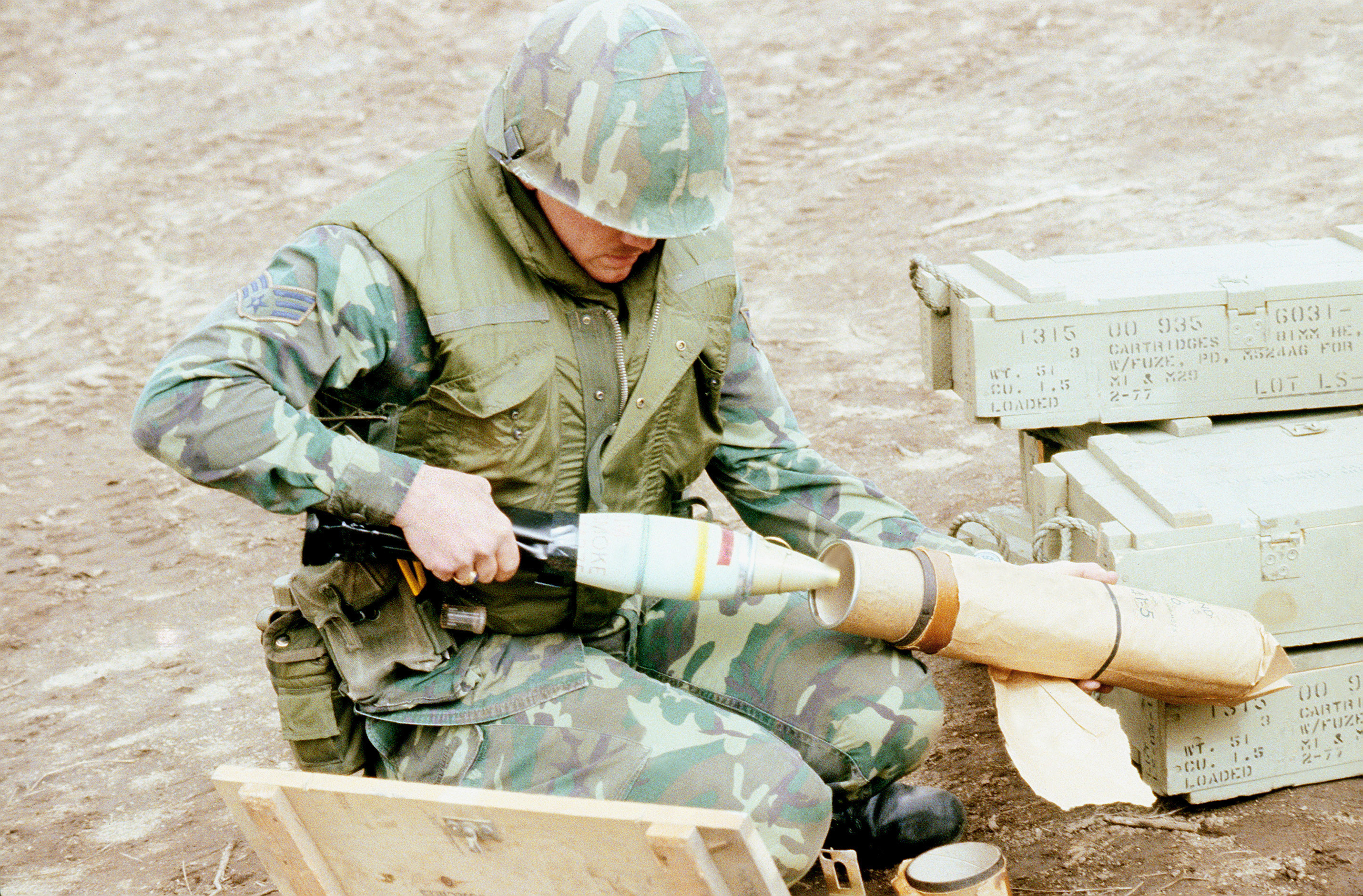 51st Security Police Squadron member SSGT Robert Colyer packs a White Phosphorous mortar round during heavy weapons training at Rodriquez Range.